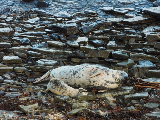 Atlantic Grey Seal with pup on Hen of Gairsay shore